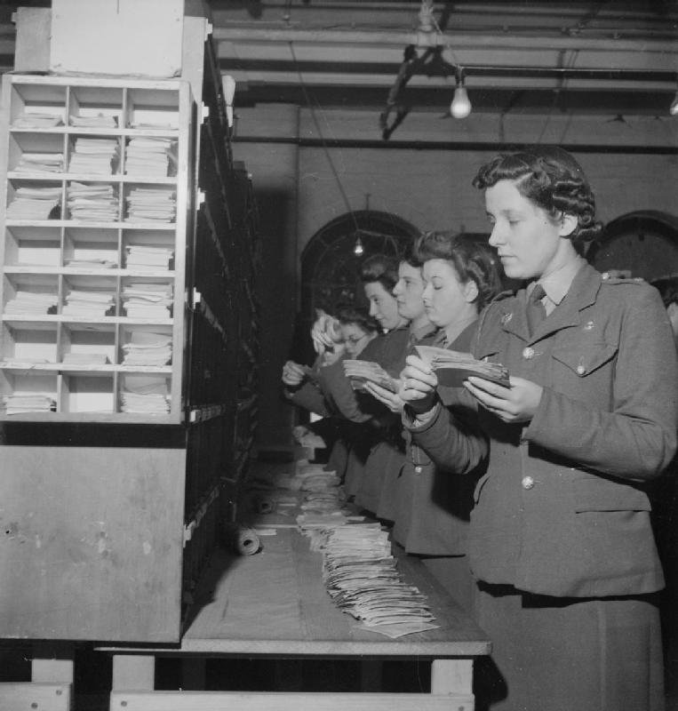 Army Post Office in the Midlands, England, 1944 Women of the Auxiliary Territorial Service (ATS) sort air mail letter cards at the Army Post Office, 'somewhere in the Midlands' in 1944. Air mail letter cards were the most popular form of correspondence at this time, with over 3 million being sent overseas every week.